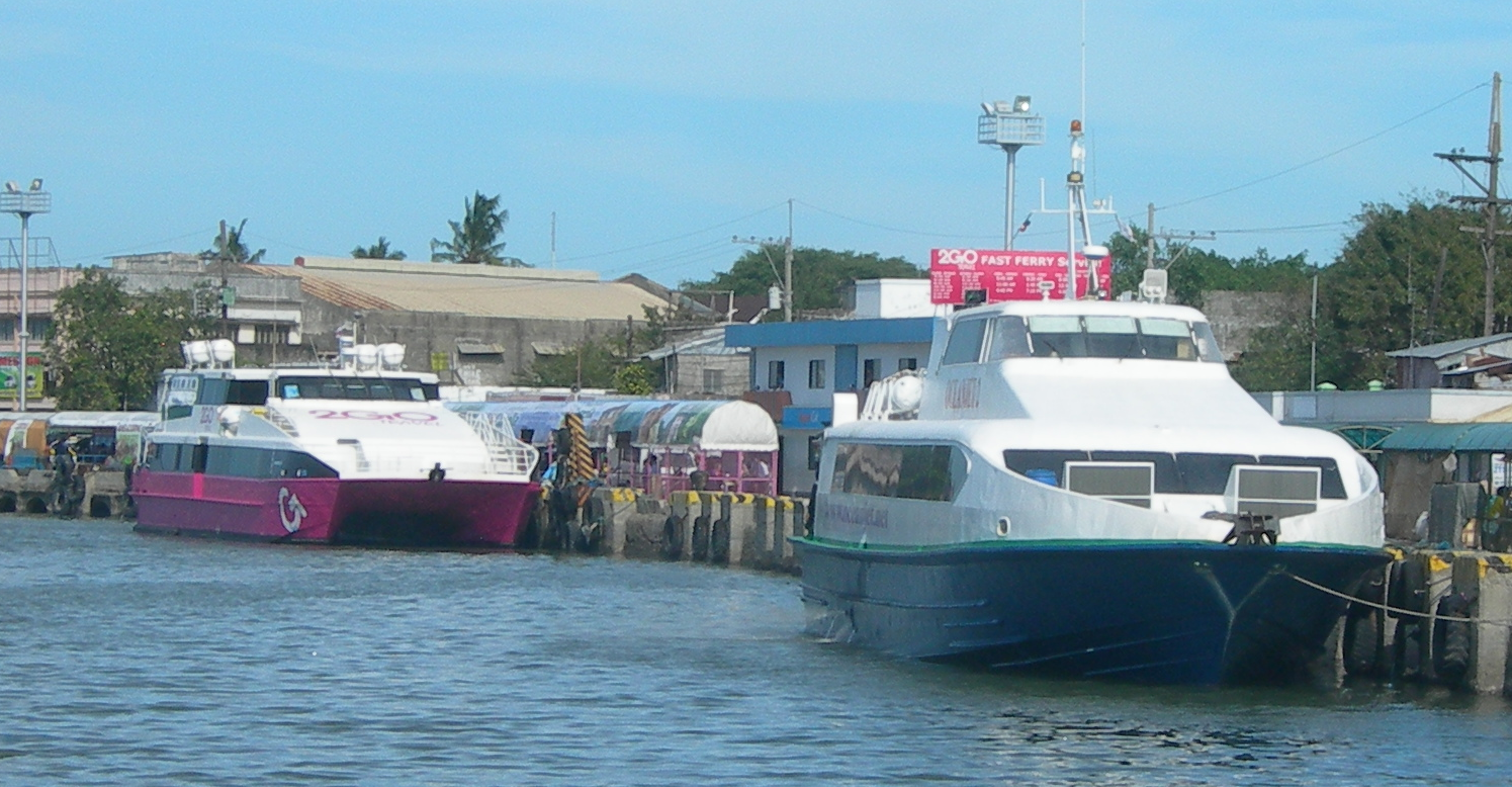 Fast craft ferries, from 2GO Travel and Oceanjet, to Bacolod on Iloilo River in Iloilo City.